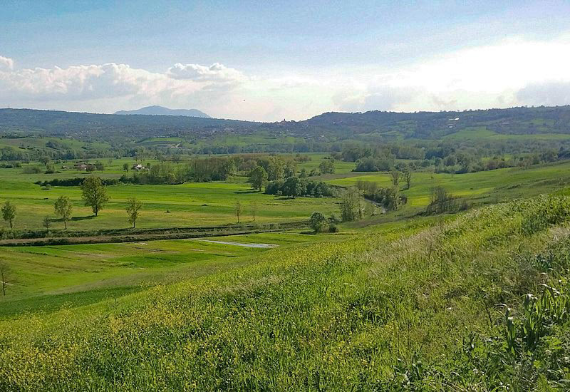 A view of Ufita Valley near Ariano Irpino, Italy